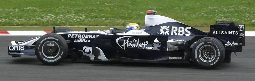 Nico Rosberg driving for WilliamsF1 at the 2008 French Grand Prix.